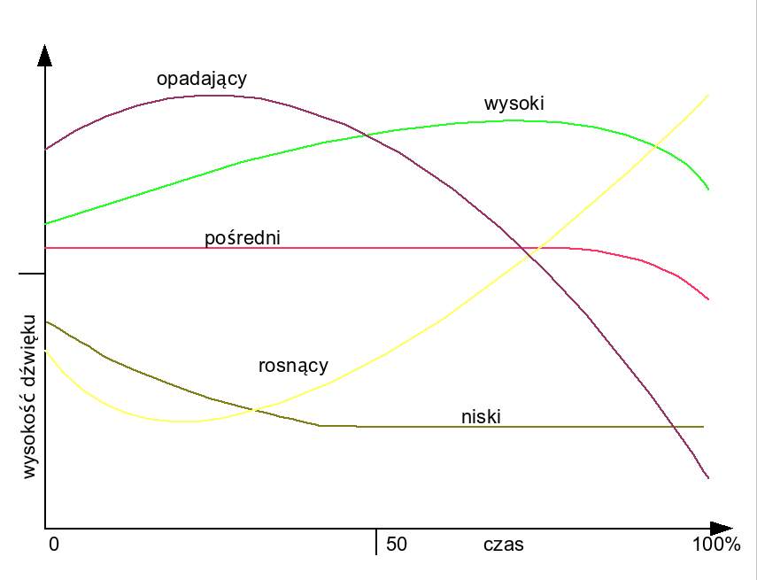 Thai language tone system [Polish]